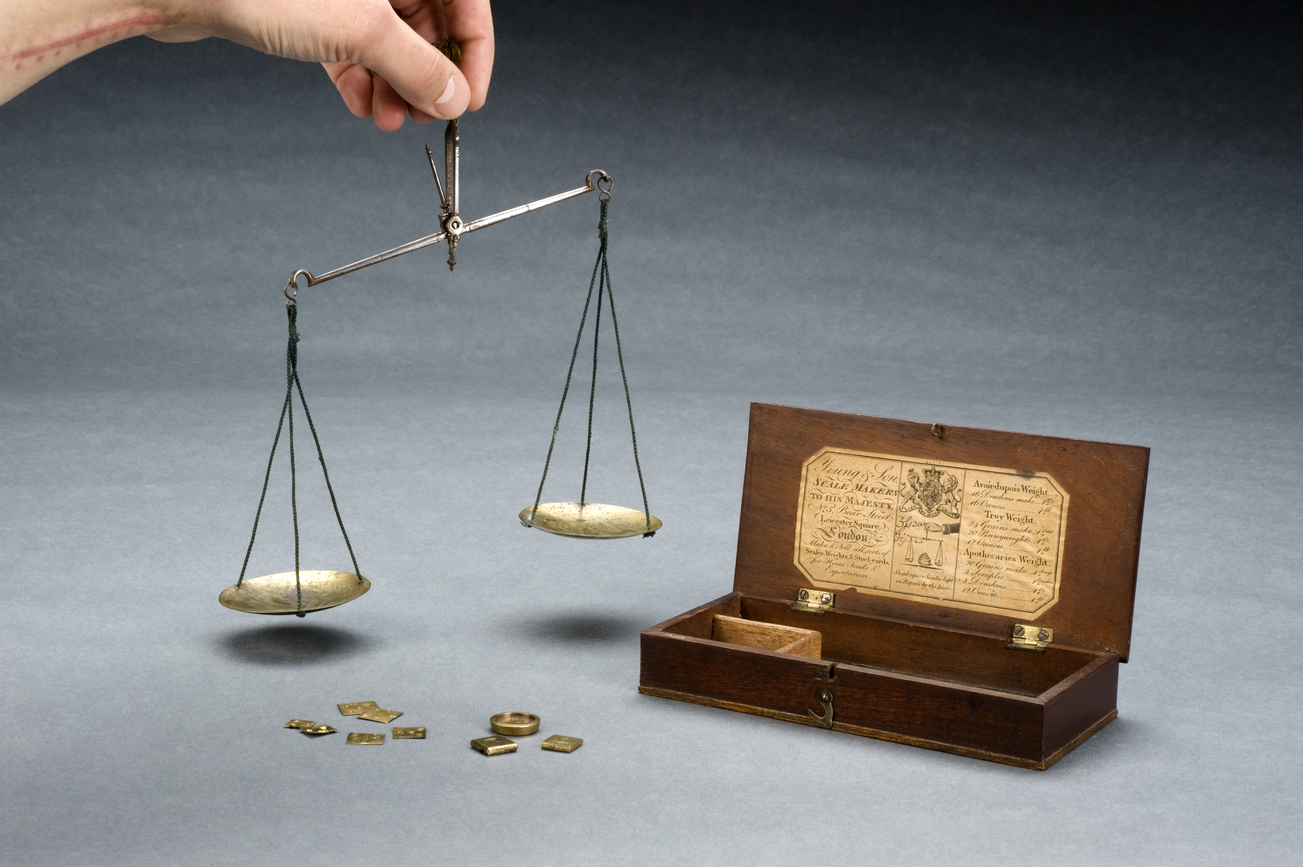 Apothecary's balance with steel beam and brass pans in wooden box with 9 assorted weights, made by Young and Son, London, English, 1750-1837. Graduated grey background - hand in shot. Wellcome Images